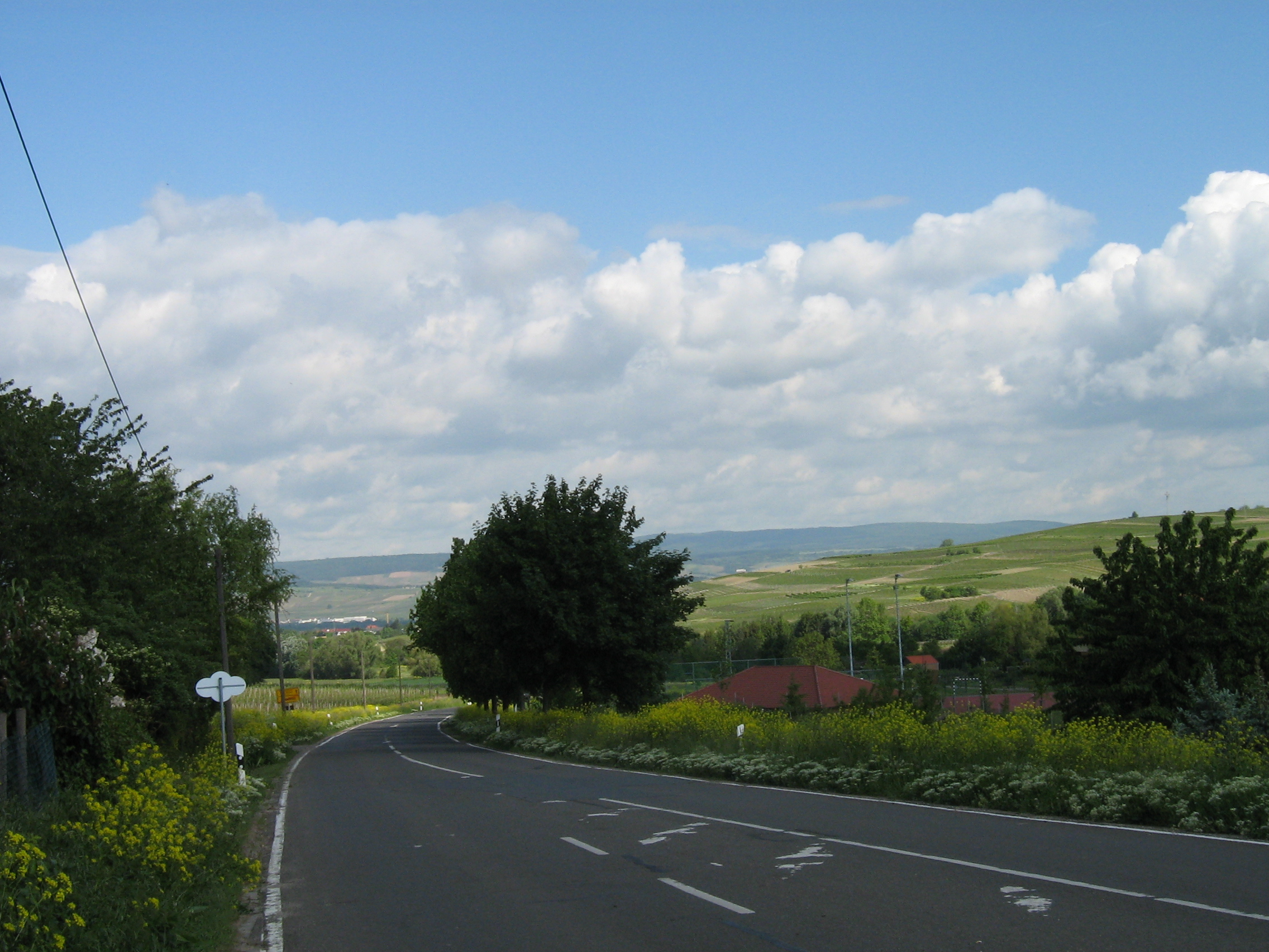 Picture of the landscape in Rheinhessen, Germany